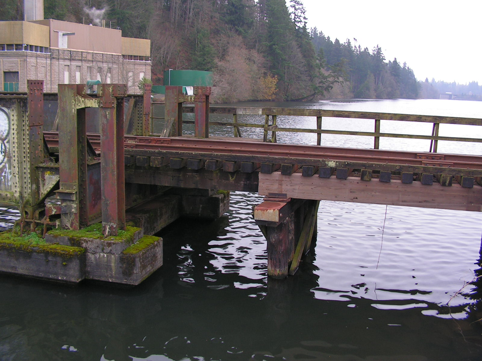 Defunct railroad bridge crossing Capitol Lake in Olympia, Washington.